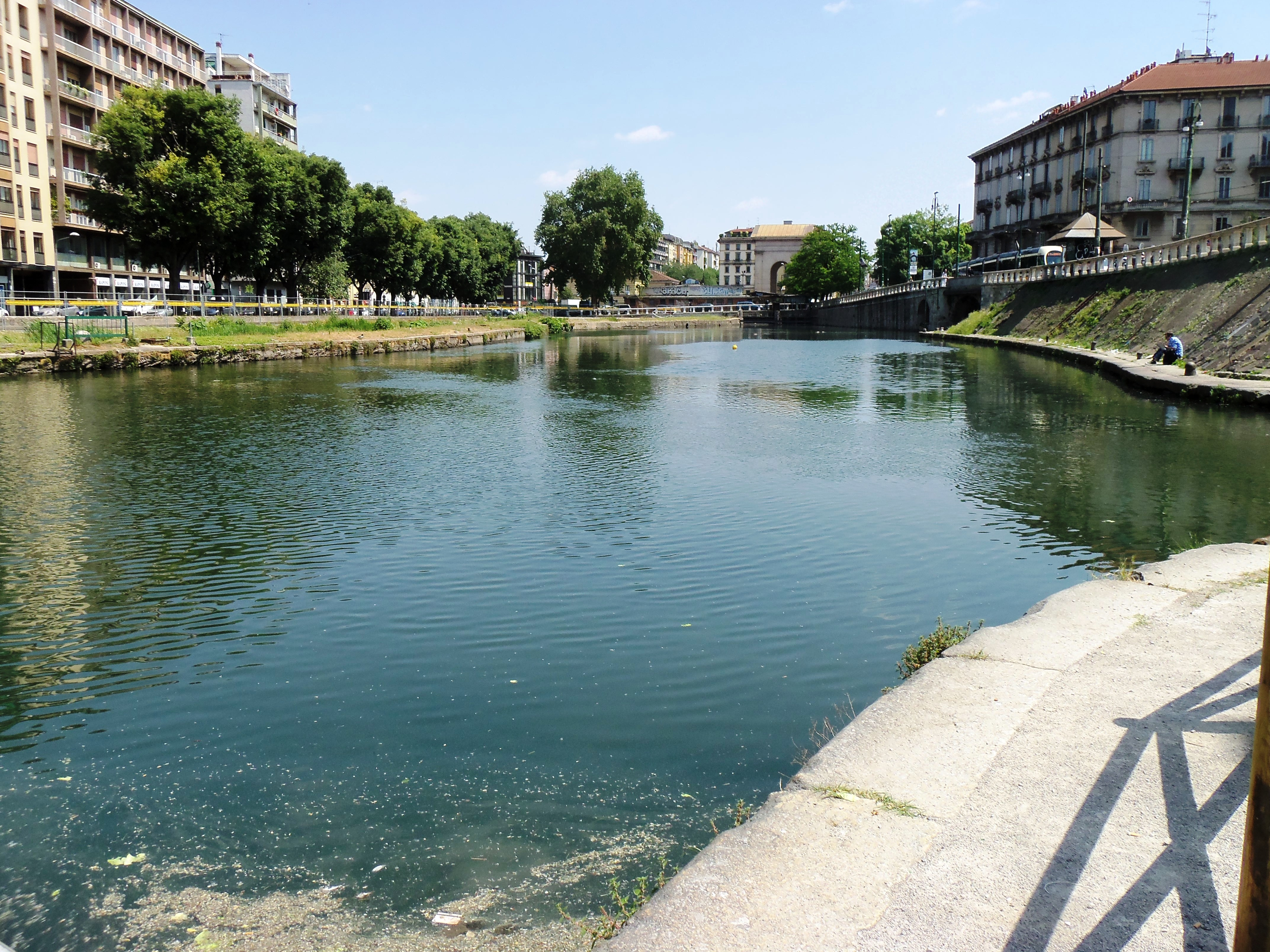 Milano, darsena: the oriental section, only open to navigation, join the Naviglio Grande with the naviglio Pavese.